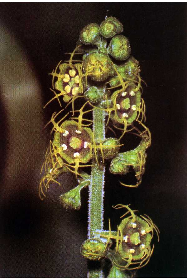 Mitella pentandra from W. Carl Taylor. USDA NRCS. 1992. Western wetland flora: Field office guide to plant species. West Region, Sacramento. Courtesy of USDA NRCS Wetland Science Institute.